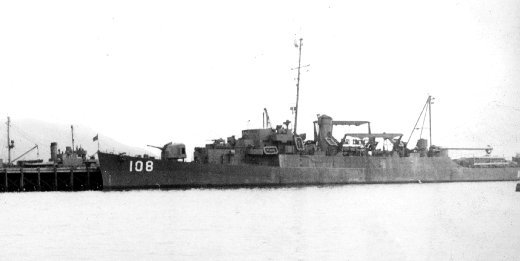 The U.S. Navy high-speed transport USS Harry L. Corl (APD-108) at Attu, Alaska (USA), circa in late 1945.